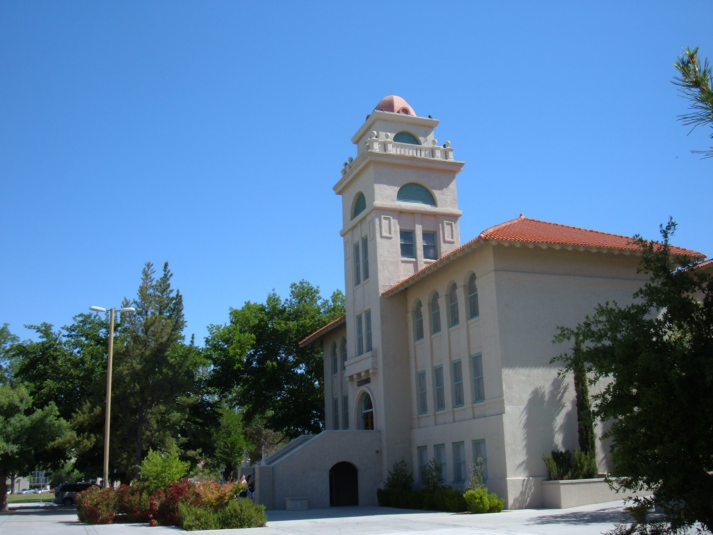 Goddard Hall at New Mexico State University at Las Cruces, New Mexico. Completed 1913.